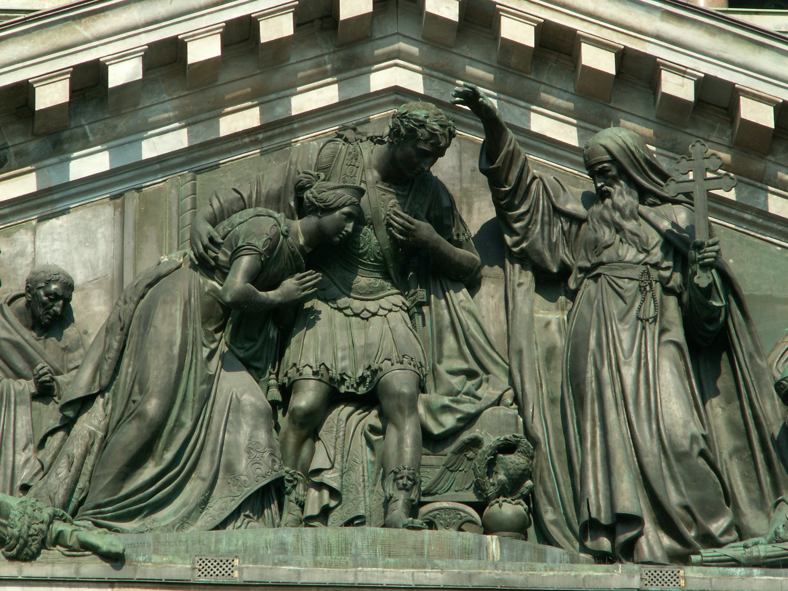 Fragment of Ivan Vitali's relief St. Isaac blessing the Emperor Theodosius and his wife Flaccilla on the west front of Saint Isaac's cathedral. Saint Petersburg, Russia